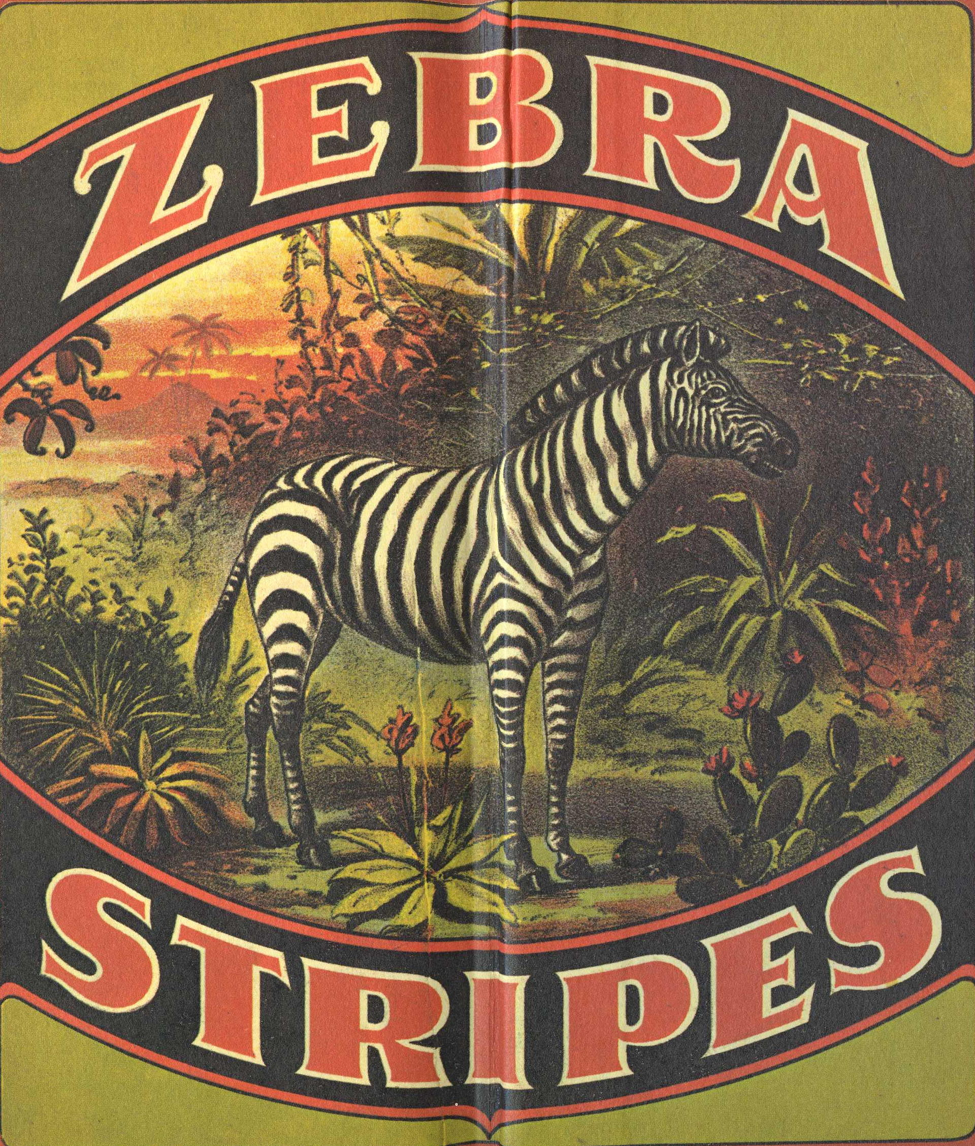 "Zebra Stripes," first trademark issued to the Gant family-owned cotton mills, Glen Raven Cotton Mills Company, for black-and-white awning striped fabric. Trademark issued in 1908. Image courtesy of .